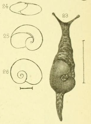 Eucobresia pegorarii (Pollonera, 1884), Vitrinidae, Gastropoda, Mollusca, Aosta, Italy (from Pollonera, 1884: pl. 10, figs,23-29)